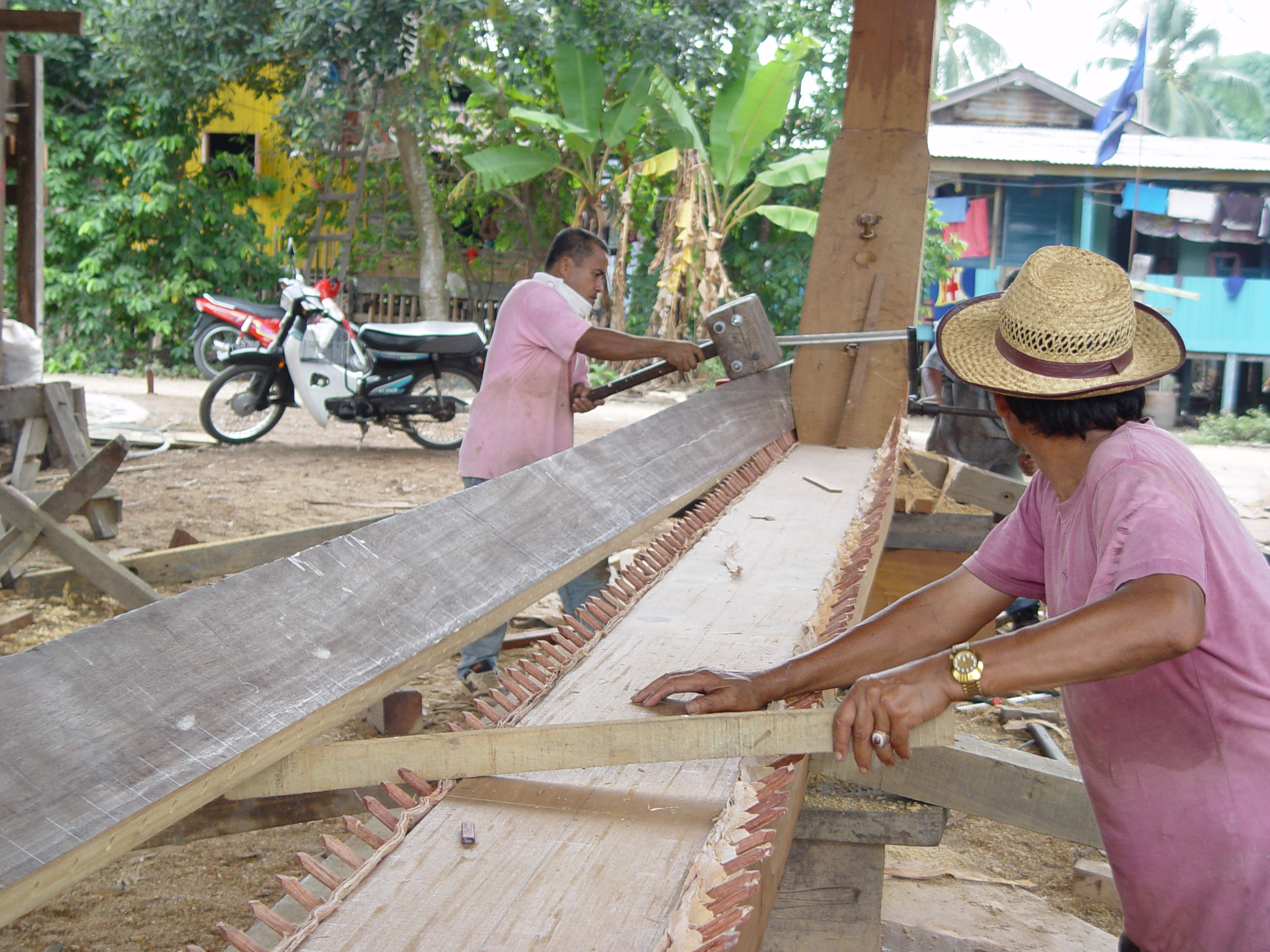 building the Naga Pelangi - the garboard strake is fitted